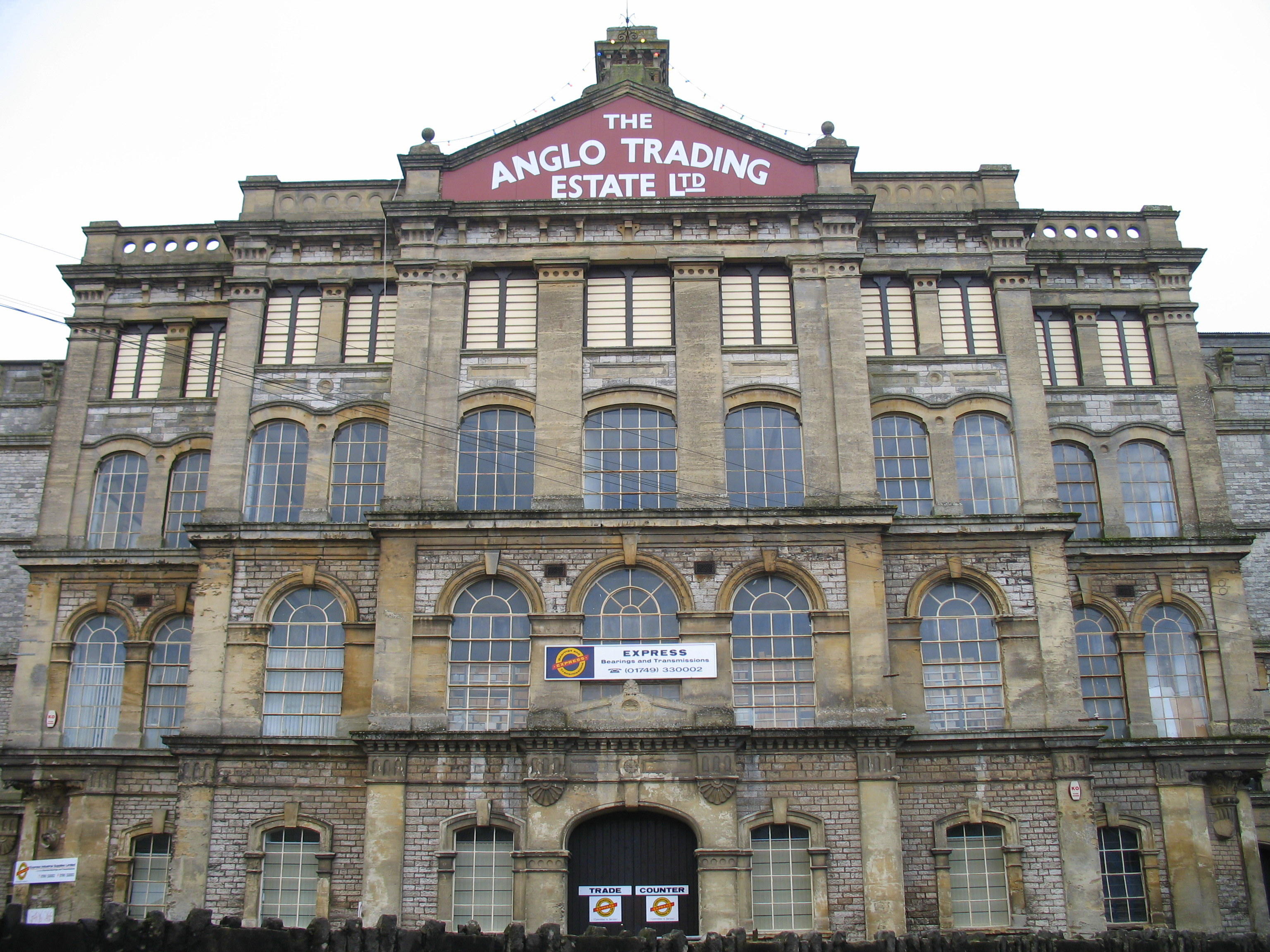 The Anglo Trading Estate, Shepton Mallet, Somerset, England